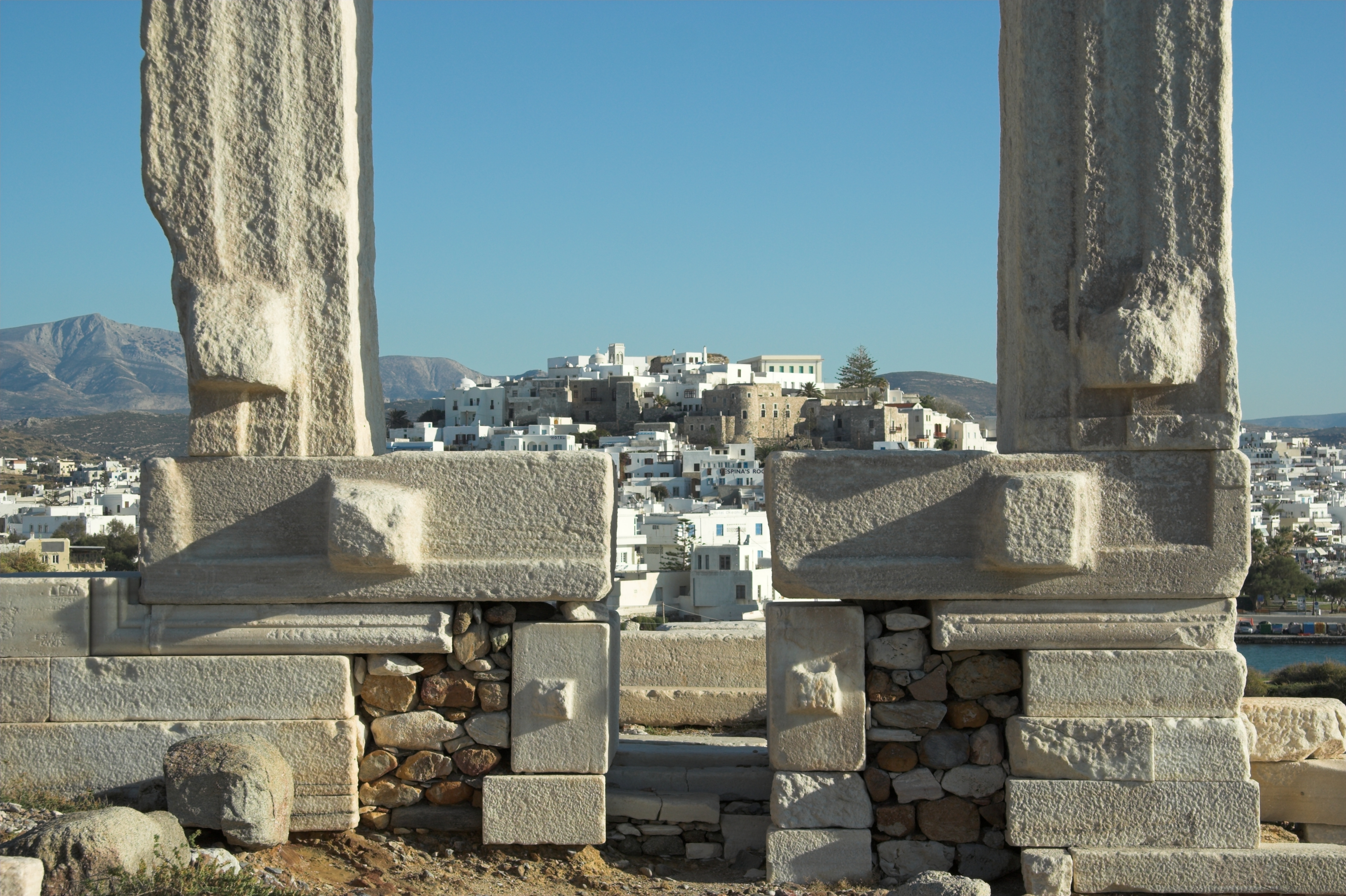 The Great Gate of the Temple of Apollo. Vista towards acropolis. The temple was built so that through him, Apollo came to the acropolis, directly to the palace of Lygdamos.